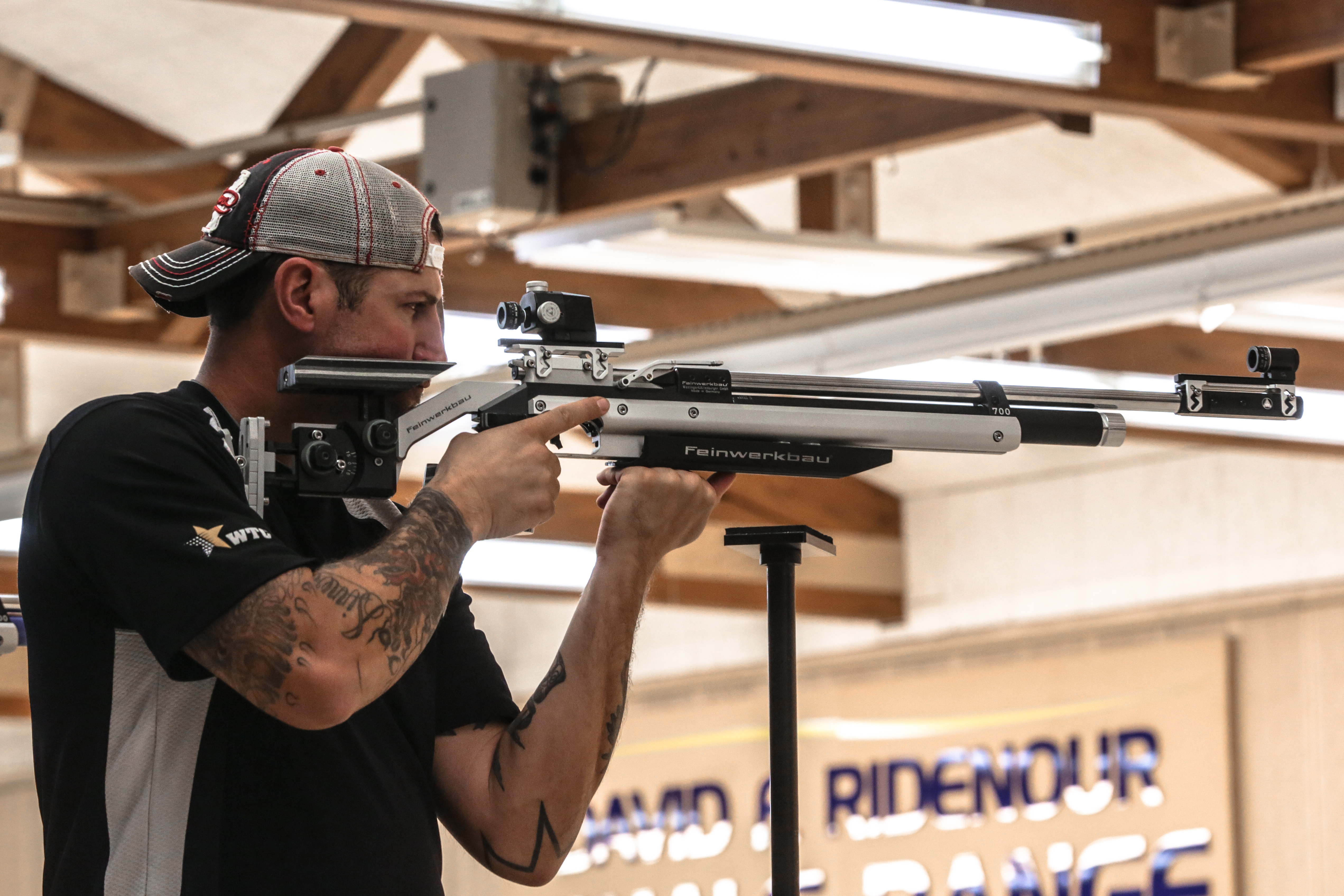 Retired U.S. Army Staff Sgt. Billy Meeks, Las Cruces, N.M., a member of the Army team, fires an air rifle during a shooting competition for the 2014 Warrior Games at the U.S. Olympic Training Center, Colorado Springs, Colo., Oct. 3, 2014. More than 200 service members and veterans participated in the 2014 Warrior Games, an annual event where wounded, ill and injured compete in various Paralympic-style events. (U.S. Army photo by Pfc. Anna M. Pol/ Released)